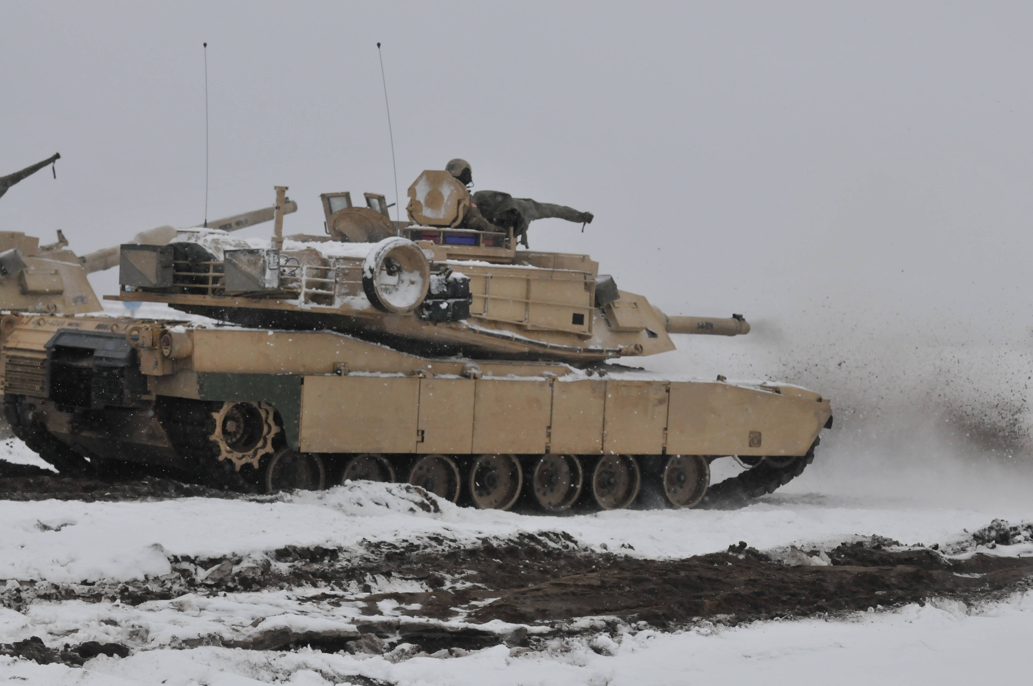 A U.S. Army tank crew, 1st Battalion, 68th Armor Regiment, 3rd Armored Brigade Combat Team, 4th Infantry Division, fire a round from an M1A2 Main Battle Tank during a Live Fire Accuracy Screening Test at Presidential Range in Swietozow, Poland, January 16, 2017. The arrival of 3rd Arm. Bde. Cmbt. Tm., 4th Inf. Div., marked the start of back-to-back rotations of armored brigades in Europe as part of Atlantic Resolve. The vehicles and equipment, totaling more than 2,700 pieces, were shipped to Poland for certification before deploying across Europe for use in training with partner nations. This rotation will enhance deterrence capabilities in the region, improve the U.S. ability to respond to potential crises and defend allies and partners in the European community. U.S. forces will focus on strengthening capabilities and sustaining readiness through bilateral and multinational training and exercises. (Photo by U.S. Army Staff Sgt. Timothy D. Hughes) Unit: 24th Press Camp Headquarters DVIDS Tags: NATO; 4ID; multinational; 4th Infantry Division; allies; Poland; Fort Carson; U.S. Army Europe; bilateral; U.S. Army; readiness; USA; Colorado; training; OAR; 3ABCT; Operation Atlantic Resolve; 3rd. Arm. Bde. Combat. Tm.; Staff Sgt. Timothy D. Hughes